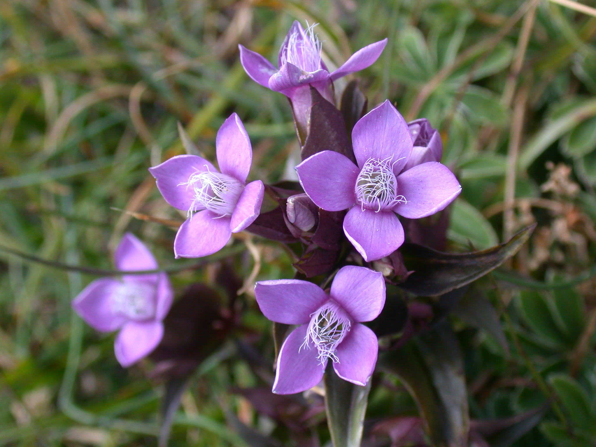 Gentiana campestris (Gentianaceae); Jura, Switzerland